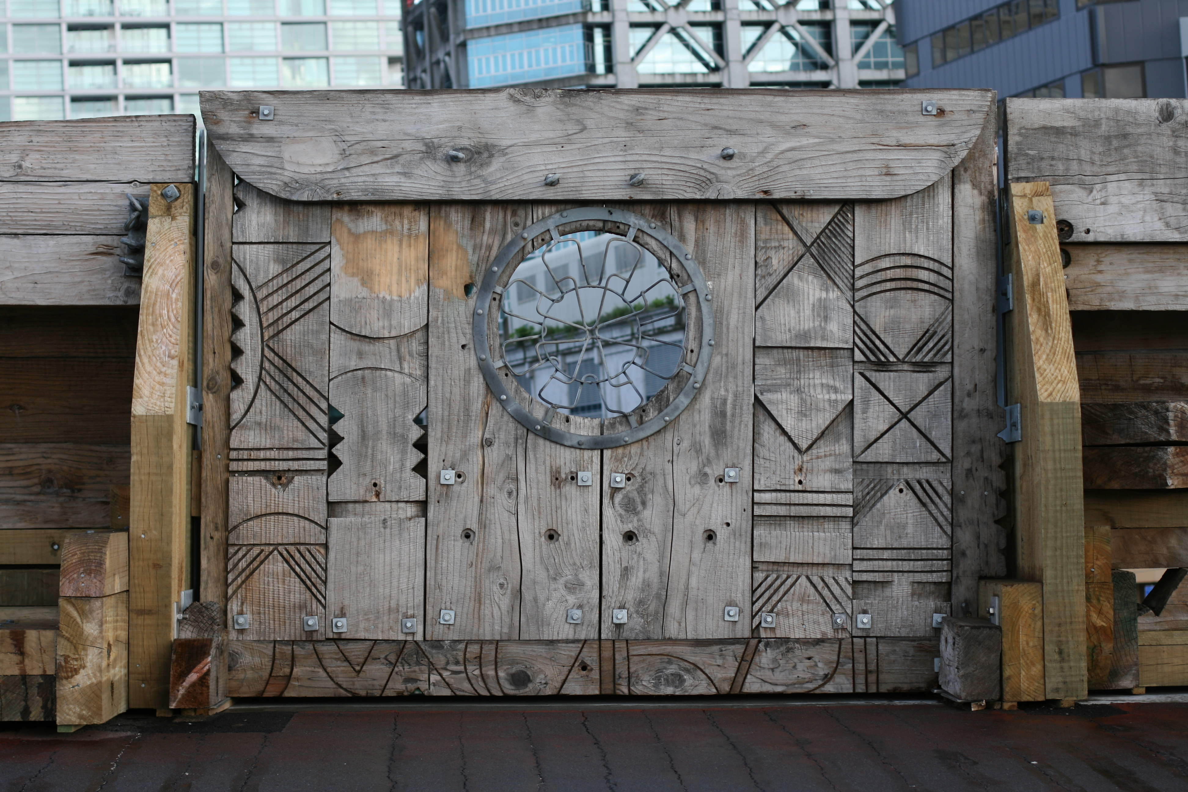 Detail of the City to Sea Bridge, showing one of the bridge sides, made from large rough-cut slabs of timber cut away in patterns. A grill-work porthole looks through the side into the high-rise building beyond.